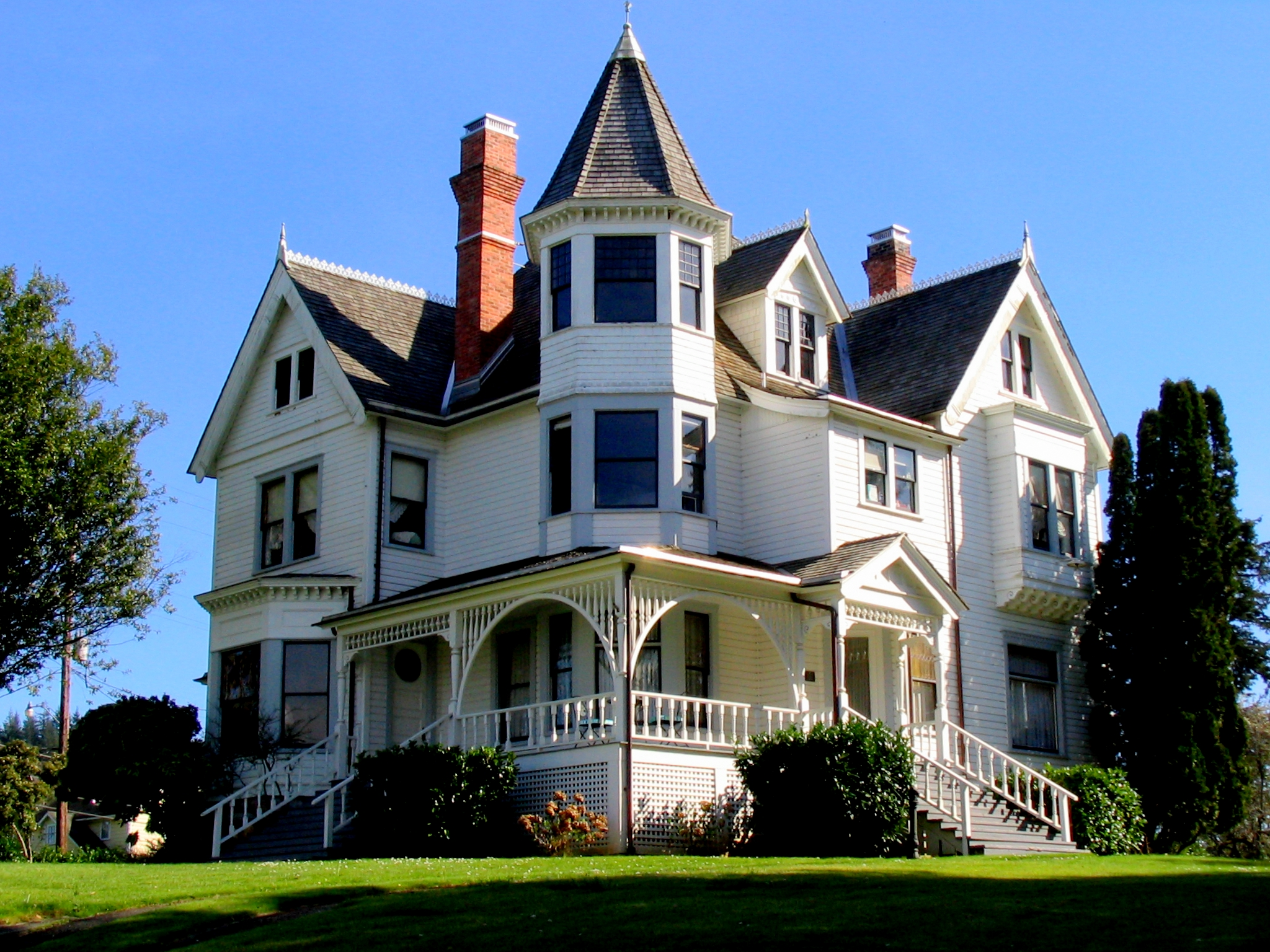 The historic A.J. Sherwood House (built 1901), located at 257 East Main Street in Coquille, Oregon, United States, is listed on the US National Register of Historic Places (NRHP). NRHP reference number 92001314